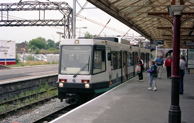 Altrincham station Audible warning is given by beeps when the sliding doors are about to close: but with a car every 6 minutes, no one worries too much if they just miss one.